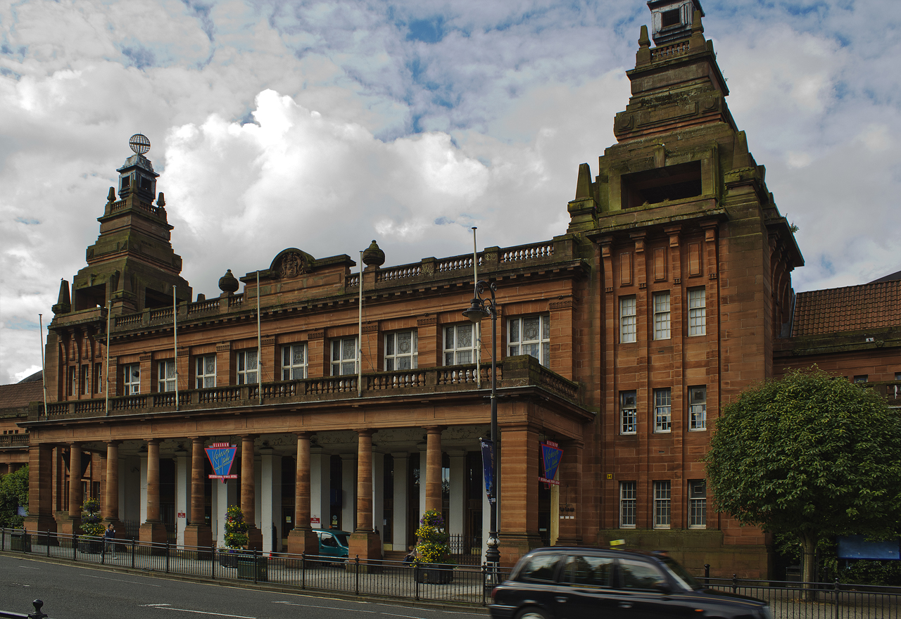 Glasgow